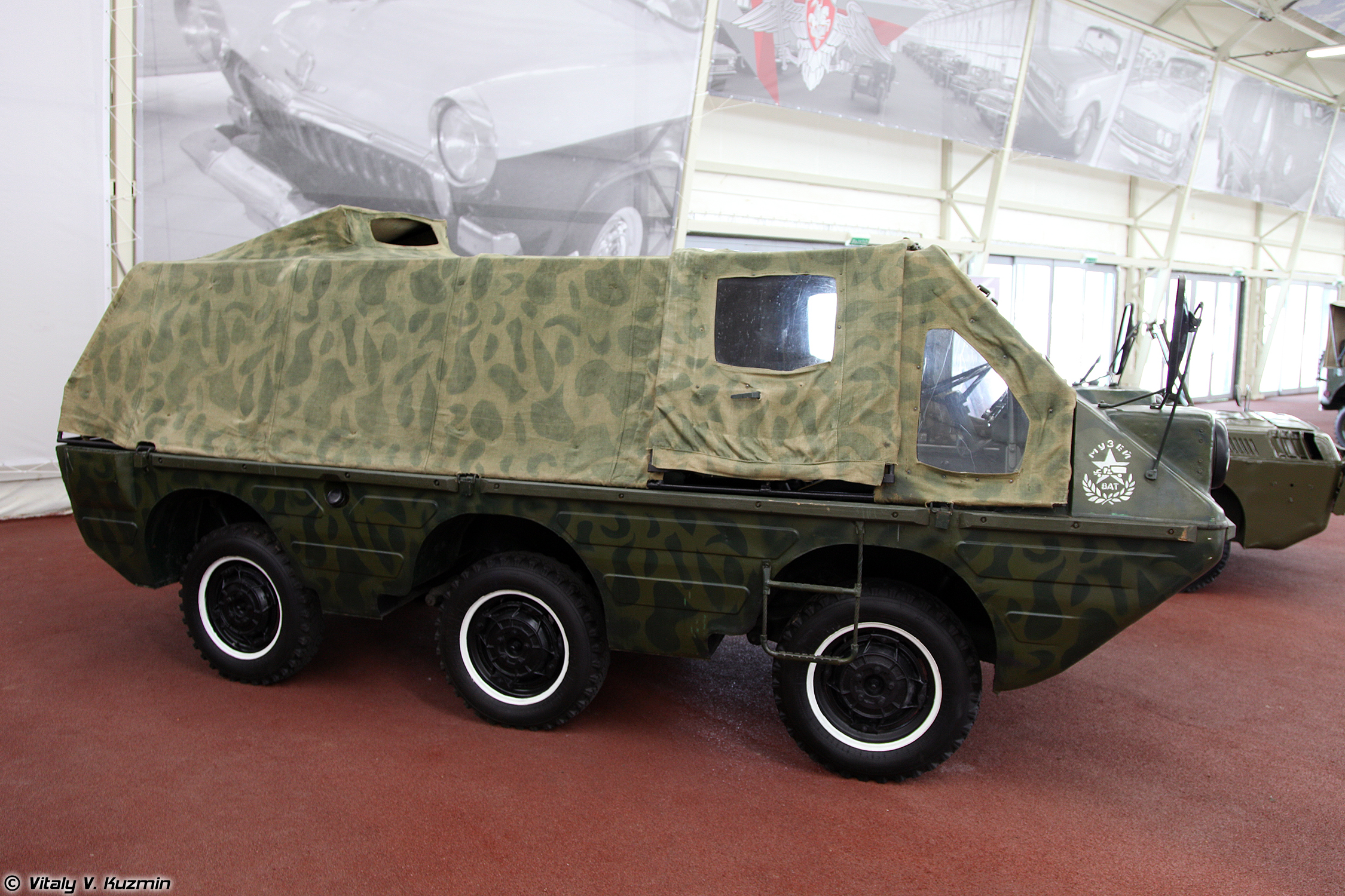 LuAZ-1901 "Geolog" - Park Patriot.